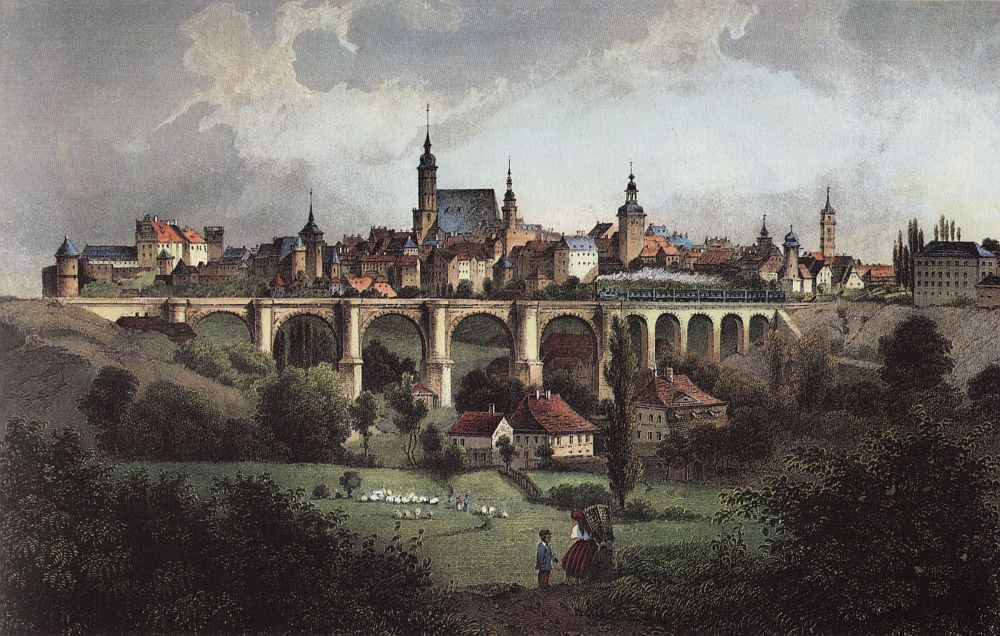 The city of Bautzen in 1850, view from the south.